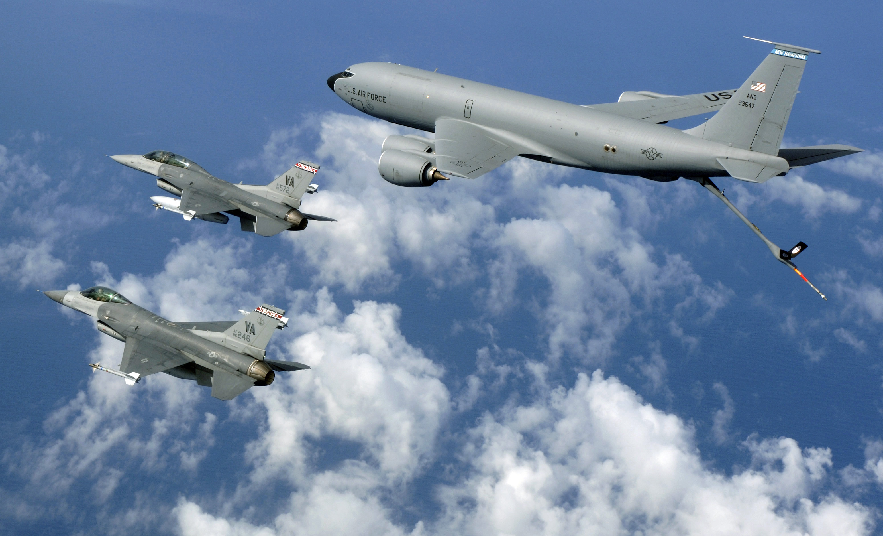 Mark Warner, Governor of the U.S. State of Virginia, rides in the back seat of a U.S. Air Force General Dynamics F-16D Fighting Falcon (center), piloted by Col. Pete Bonanni, during a training mission off the coast of Virginia, 6 October 2005. Col. Bonanni, Commander, 192nd Fighter Wing, Virginia Air National Guard, is in formation with an F-16C (left) and a Boeing KC-135R Stratotanker from the 133rd Air Refueling Squadron, 157th Air Refueling Wing, New Hampshire Air National Guard.